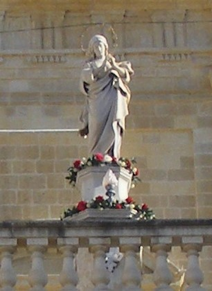 Statue of Holy Mary on the front of Collegiate Church of the Immaculate Conception, Bormla (Cospicua), Malta